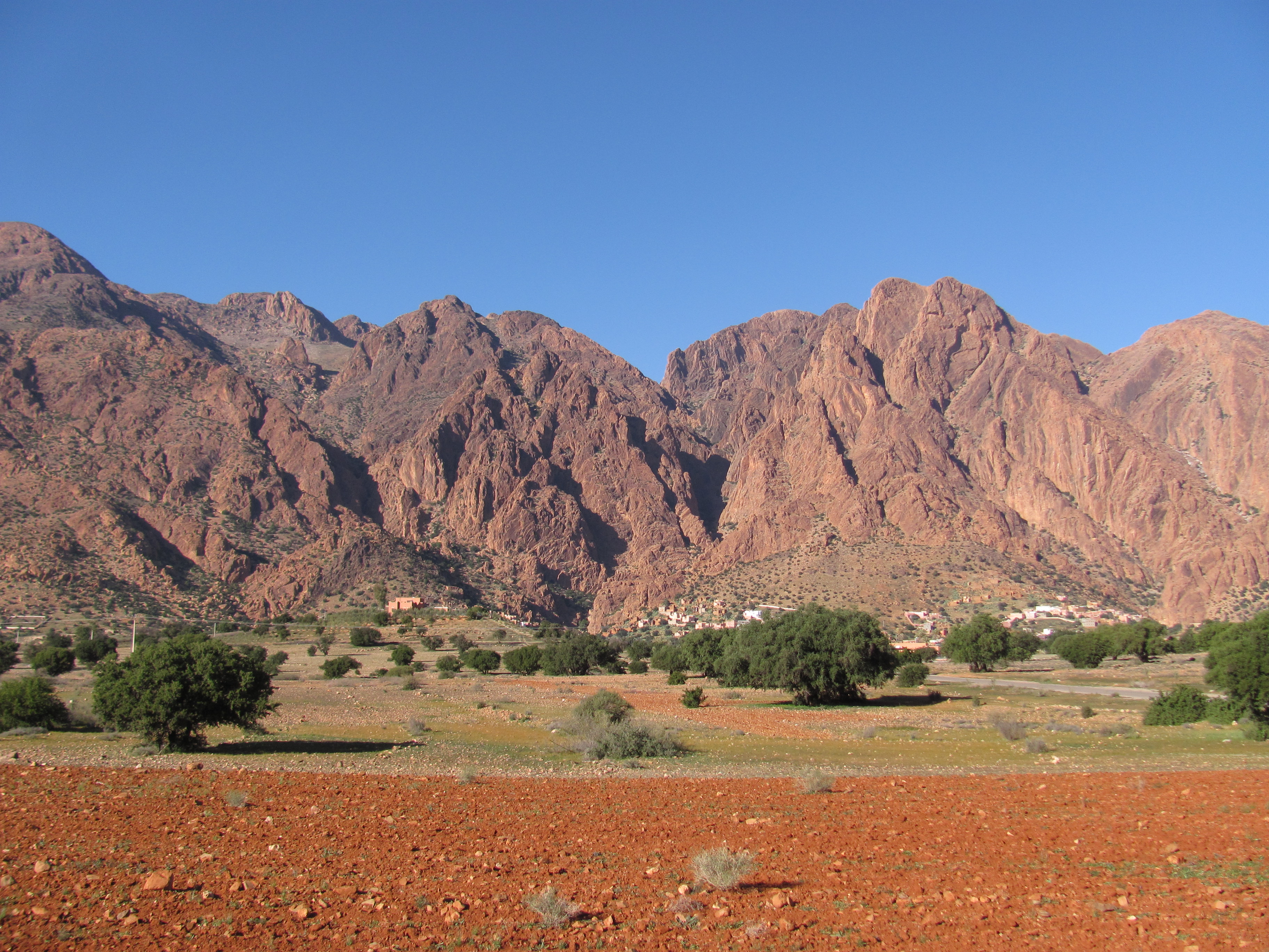 Agriculture is important in the Ameln Valley